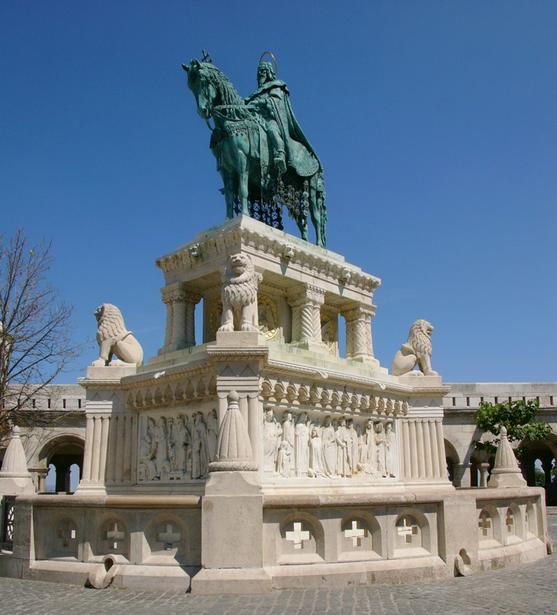 Statue Stephen I of Hungary, Budapest, Hungary